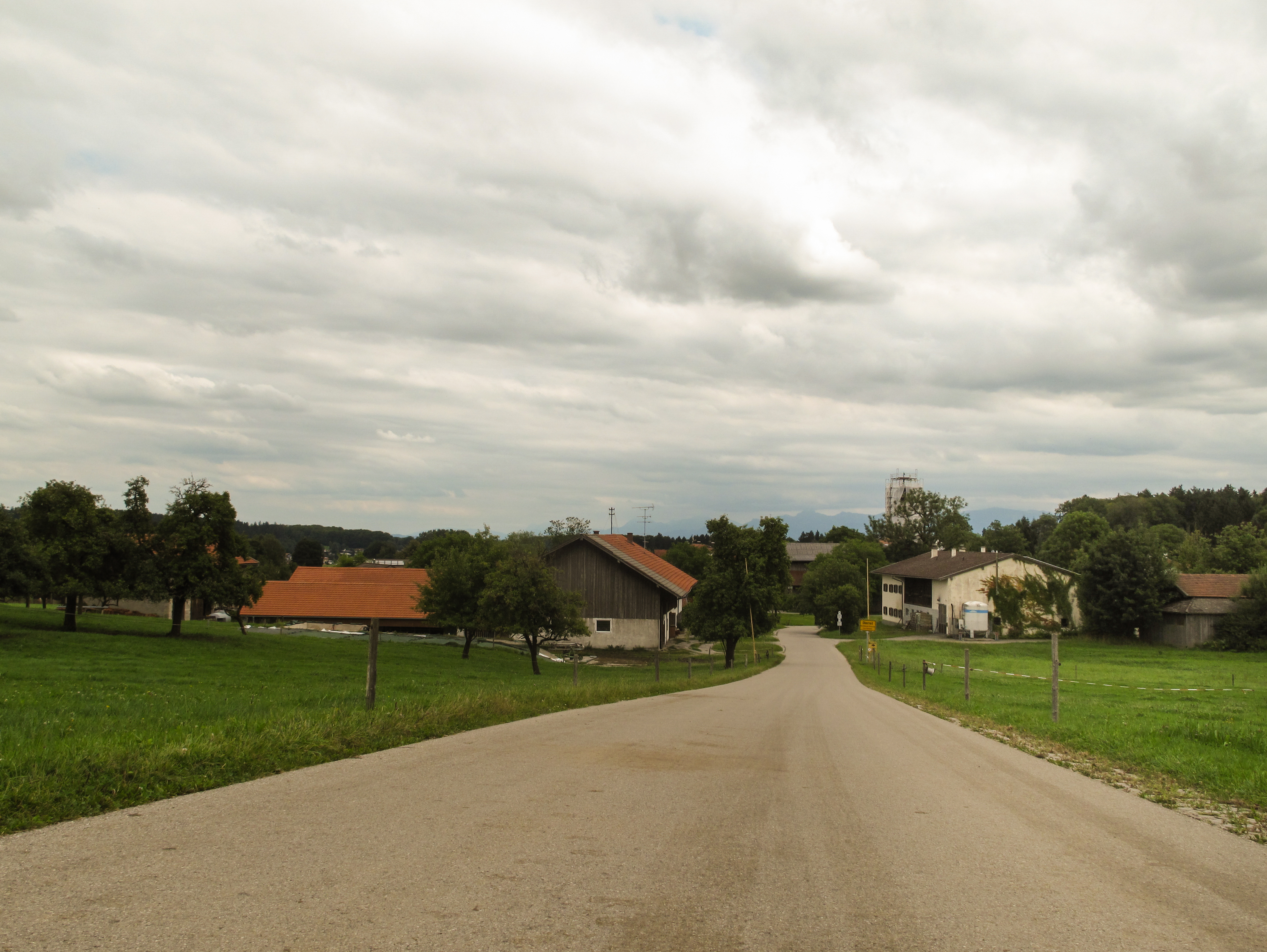 Altenburg, view to a street when entering the village